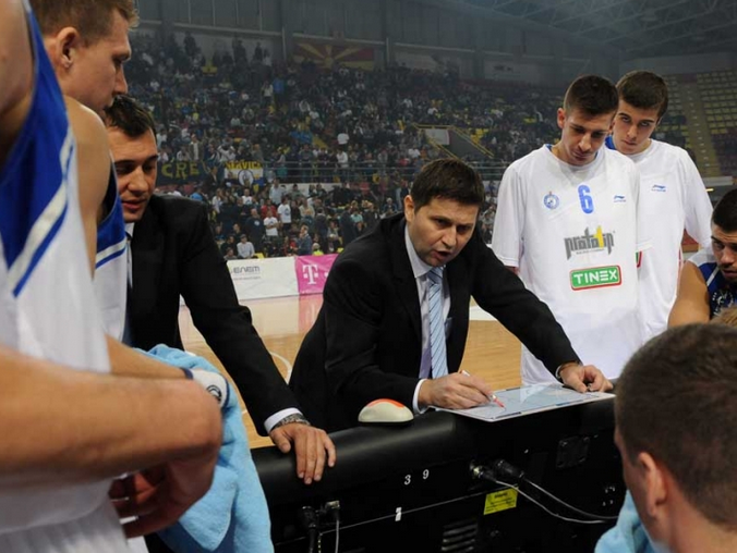 влада